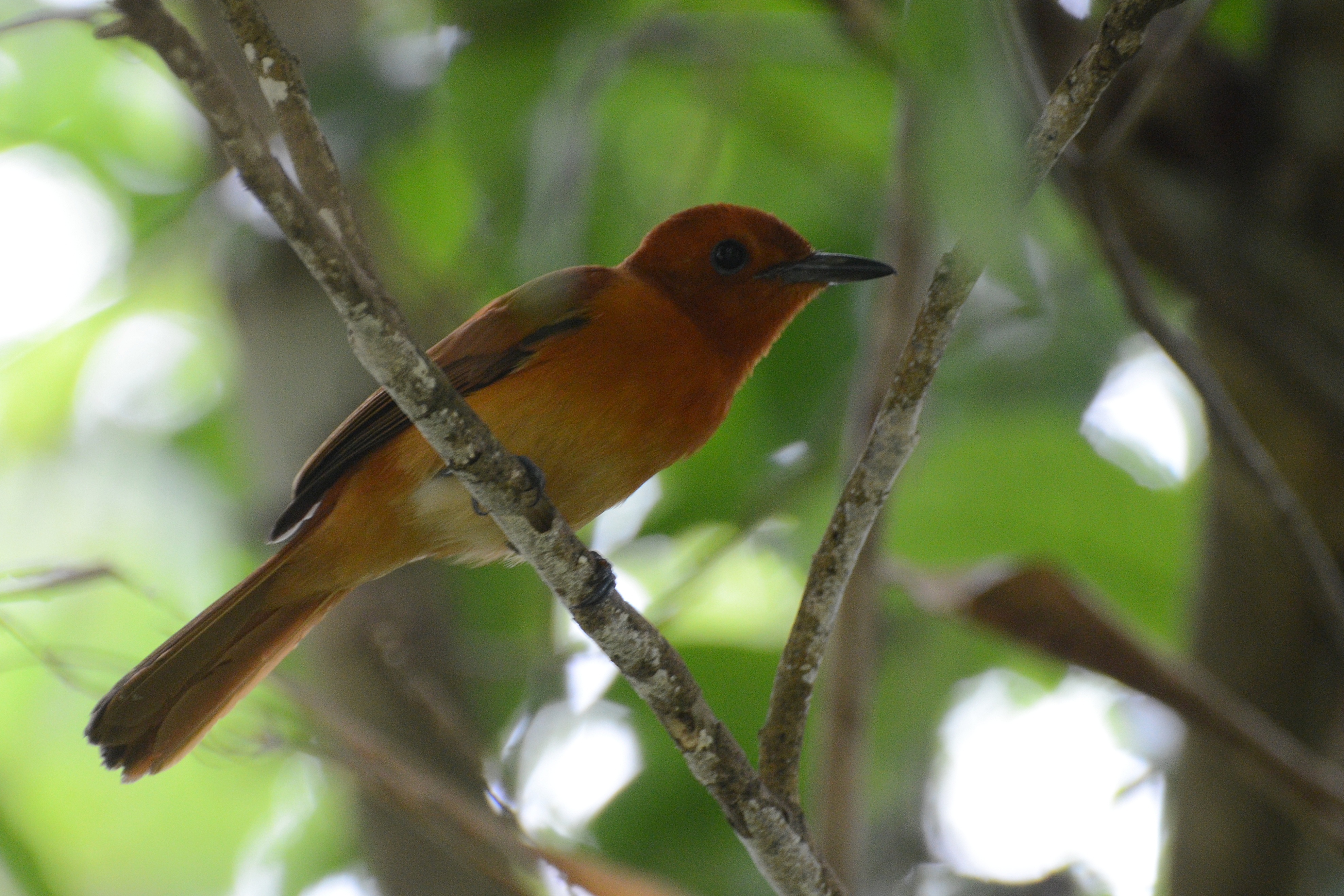 Rufous Paradise-flycatcher (Terpsiphone cinnamomea) at Salibabu Island, Talaud Islands Regency, North Sulawesi